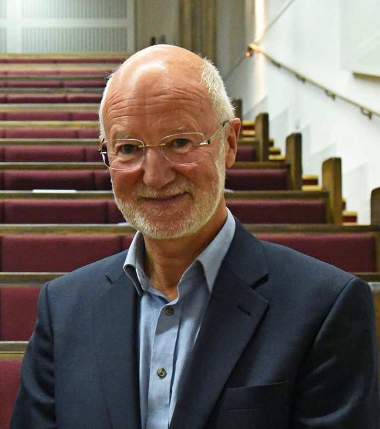 Photograph of Professor Nick Davies, Zoology Department, University of Cambridge